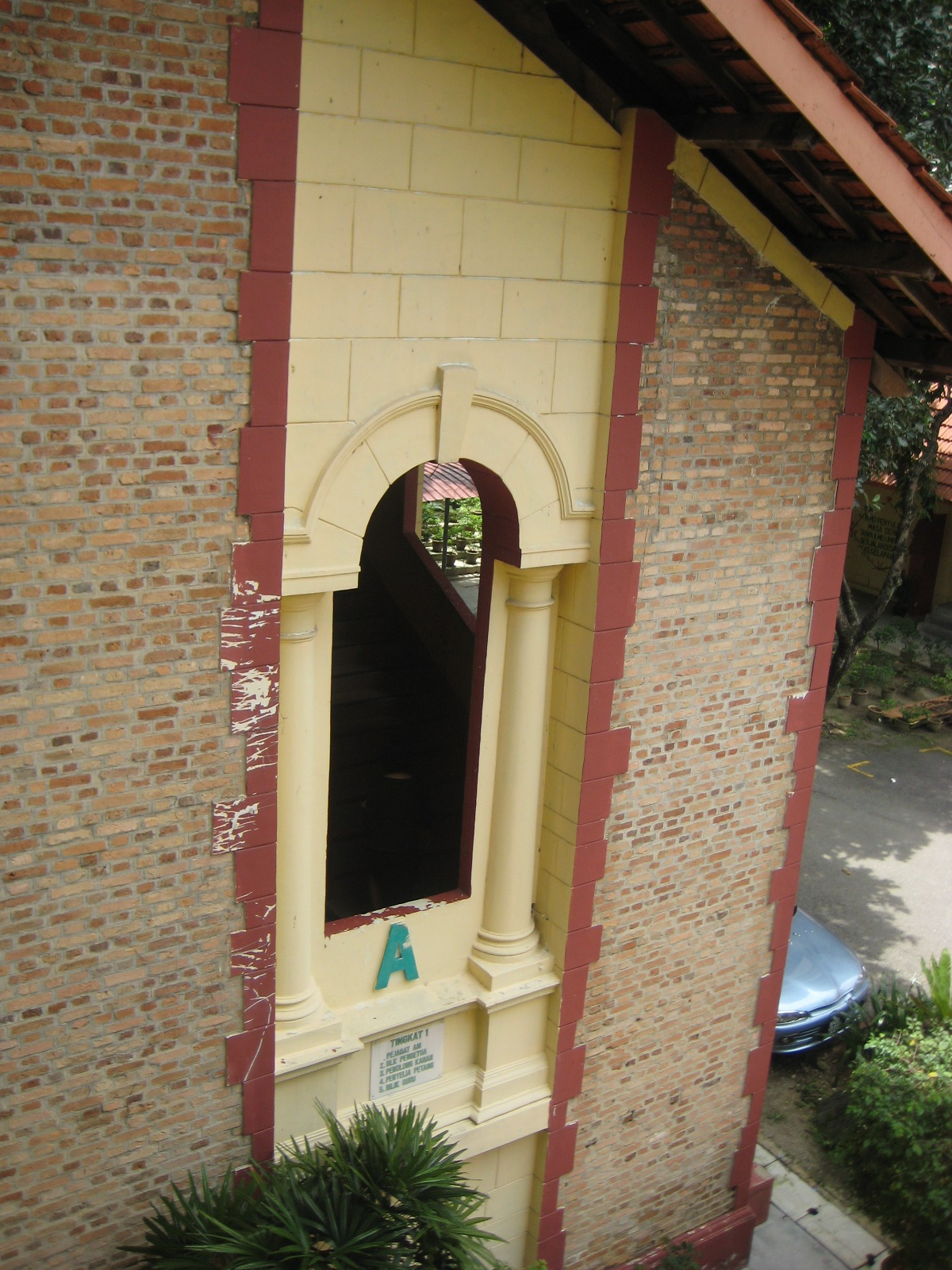 Staircase of the main block